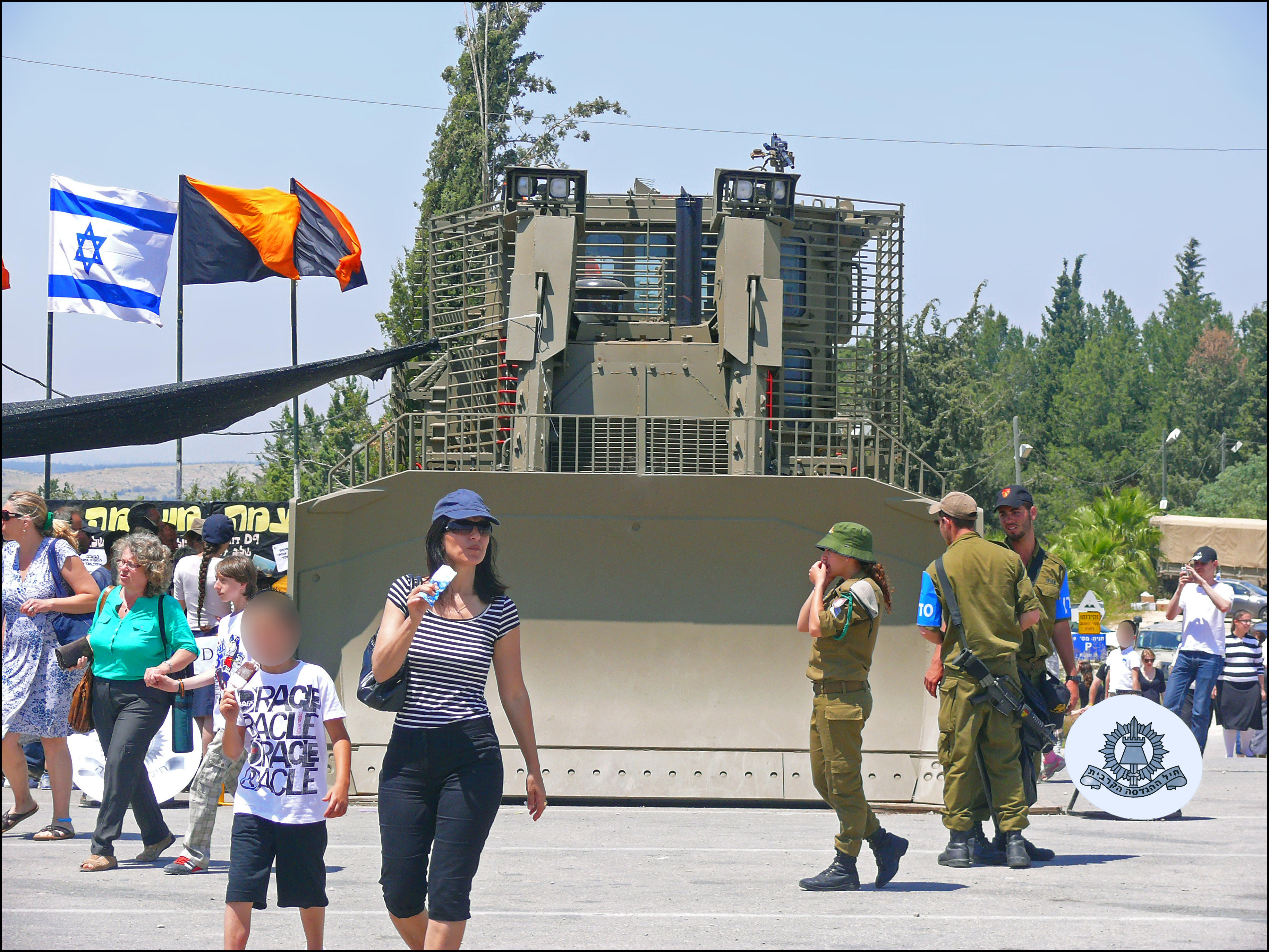 Many visitors at "Yad La-Shiryon" (Armored Corps Memorial) Latrun (Israel) looking at an IDF Caterpillar D9 armored bulldozer, during the IDF Ground Command (Army) exhibition of 64th Yom Ha'atzmaut of Israel